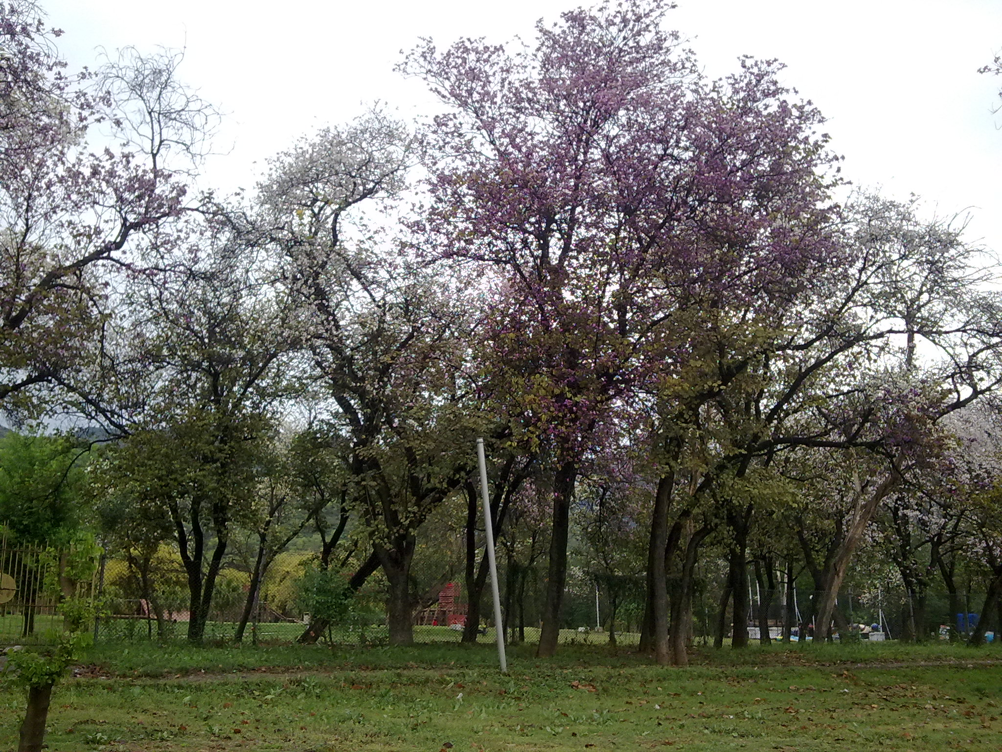 Kachnar Tree